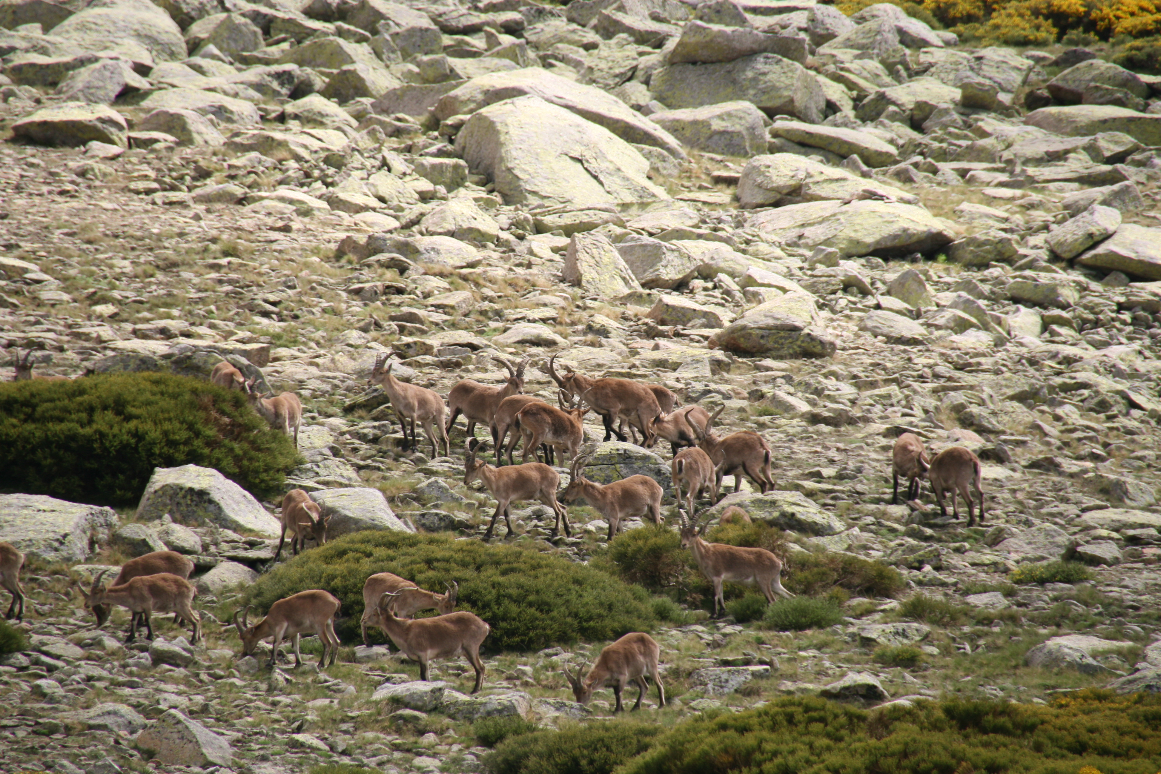 Circo de Gredos is a glaciar circus over plutonic rocks. It is in the Sierra of Gredos in the centre of the Spain.